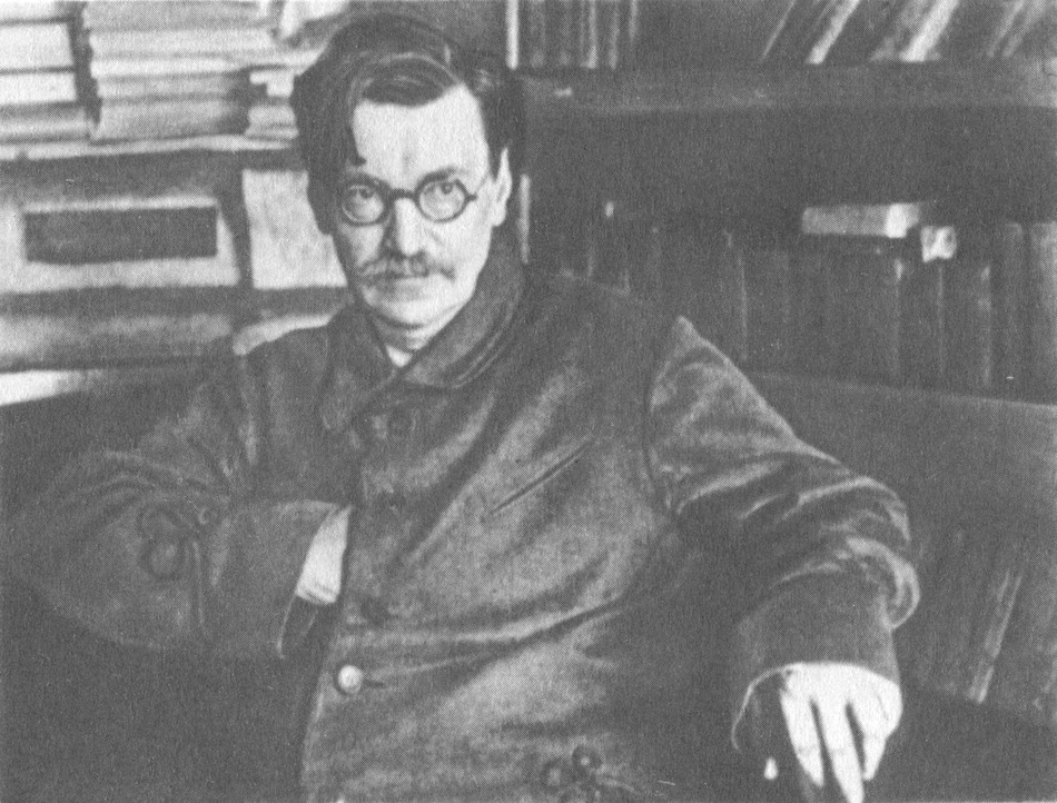 Russian revolutionary Vyacheslav Menzhinsky (1874—1934)